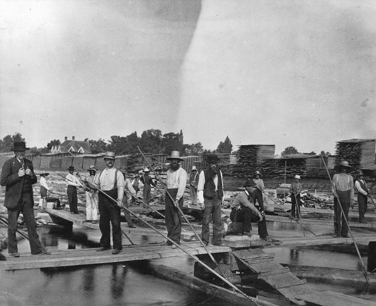 Sorting logs on the Ottawa River, Canada.